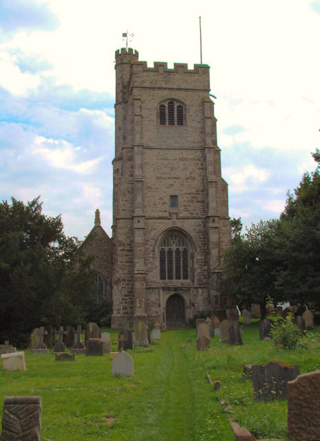 St James' parish church, Egerton, Kent, seen from the west